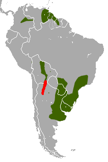 Distribution of Lutreolina massoia (red), Distribution of Lutreolina crassicaudata (green)